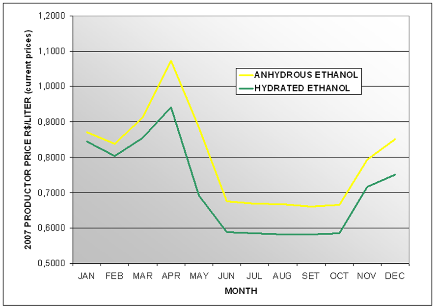 Ethanol producer price variation by month, year 2007, Brazil. Graph created with public data from União da Indústria de Cana-de-açúcar/UNICA e Ministério da Agricultura, Pecuária e Abastecimento/MAPA. Available at UNICA's website Created with Excel and converted to PNG with Photoshop Elements.